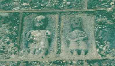 Pfarrkirche St. Valentin: Roman gravestone in the parish church Saint Valintin (Austria).